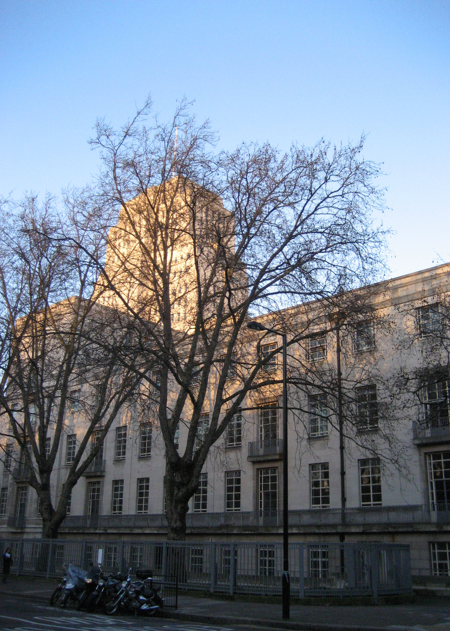 Senate House, University of London